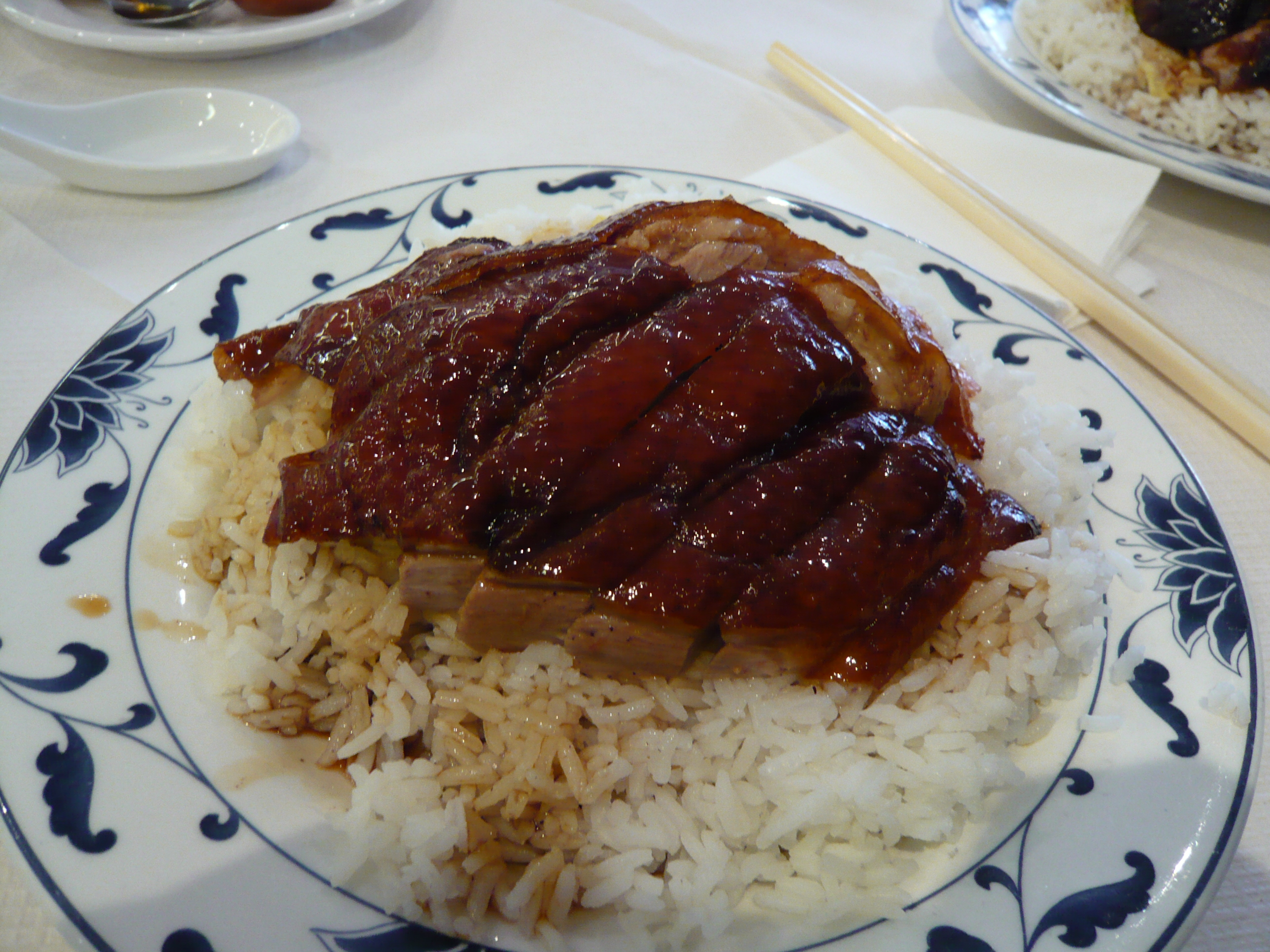 Four Seasons Roast Duck. Cantonese style roast duck with rice.